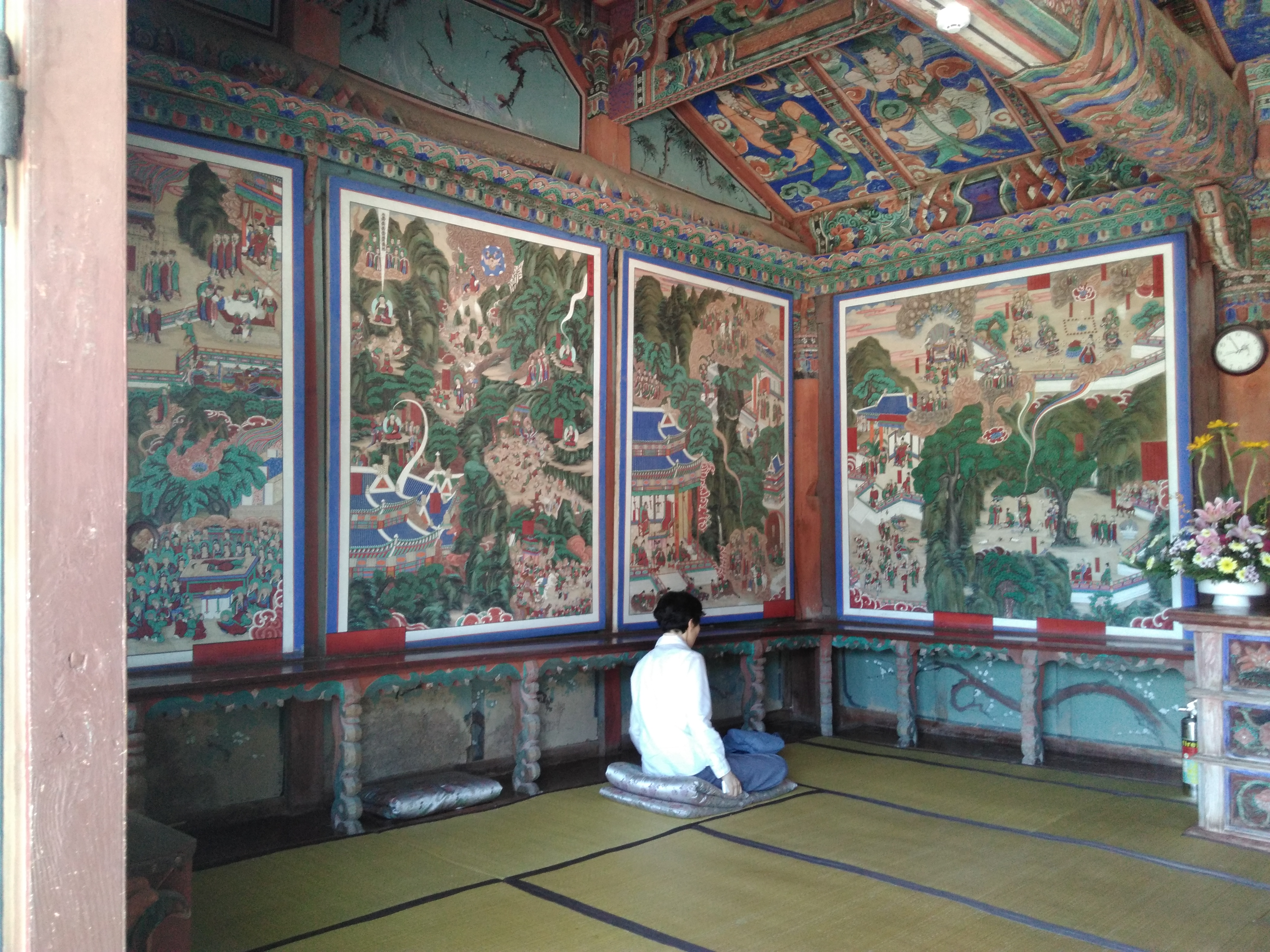 Beomeosa Palsangjeon - Life of Buddha